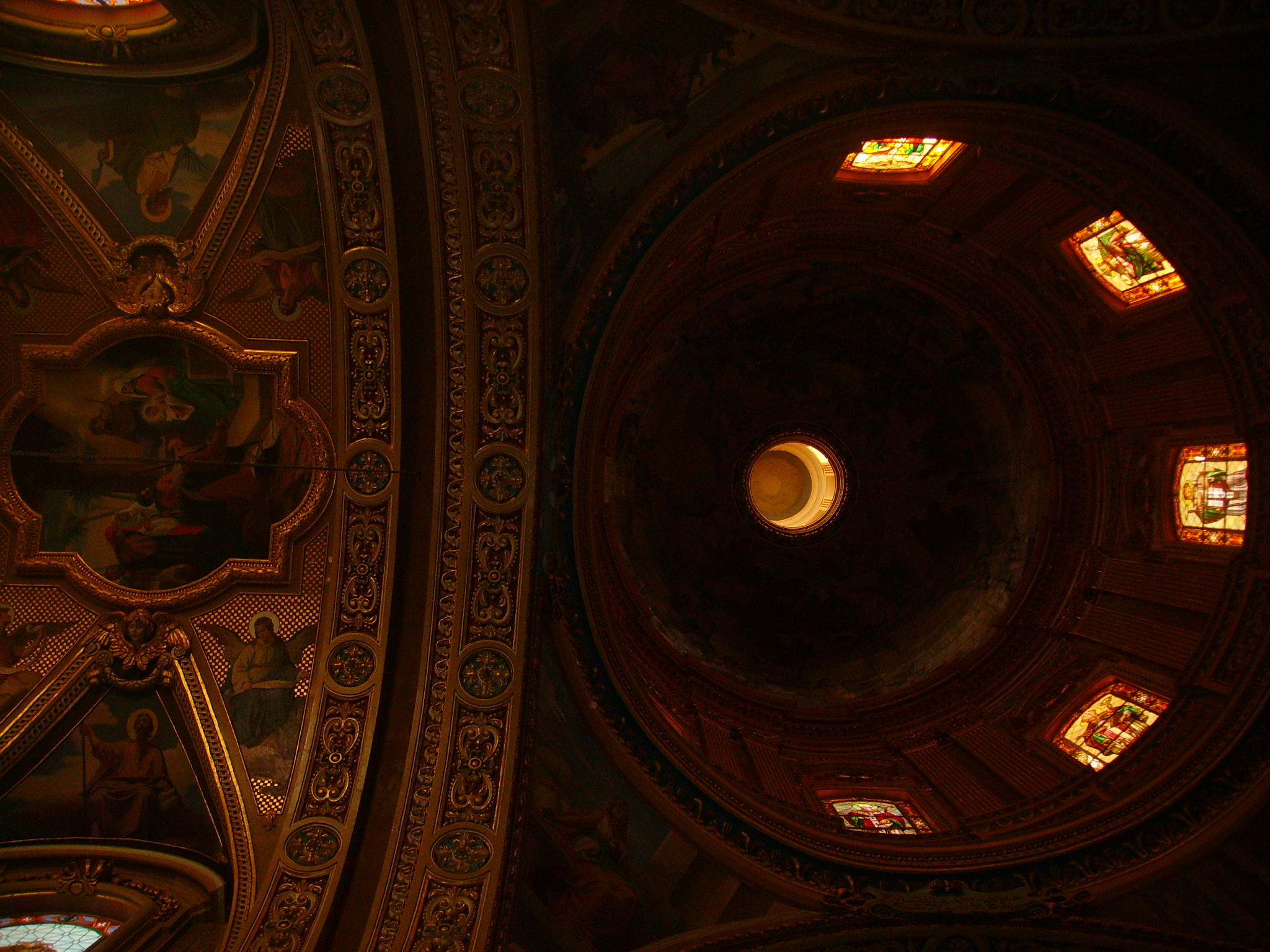 Dome of the Basilica St. Mary Nativity, Xaghra